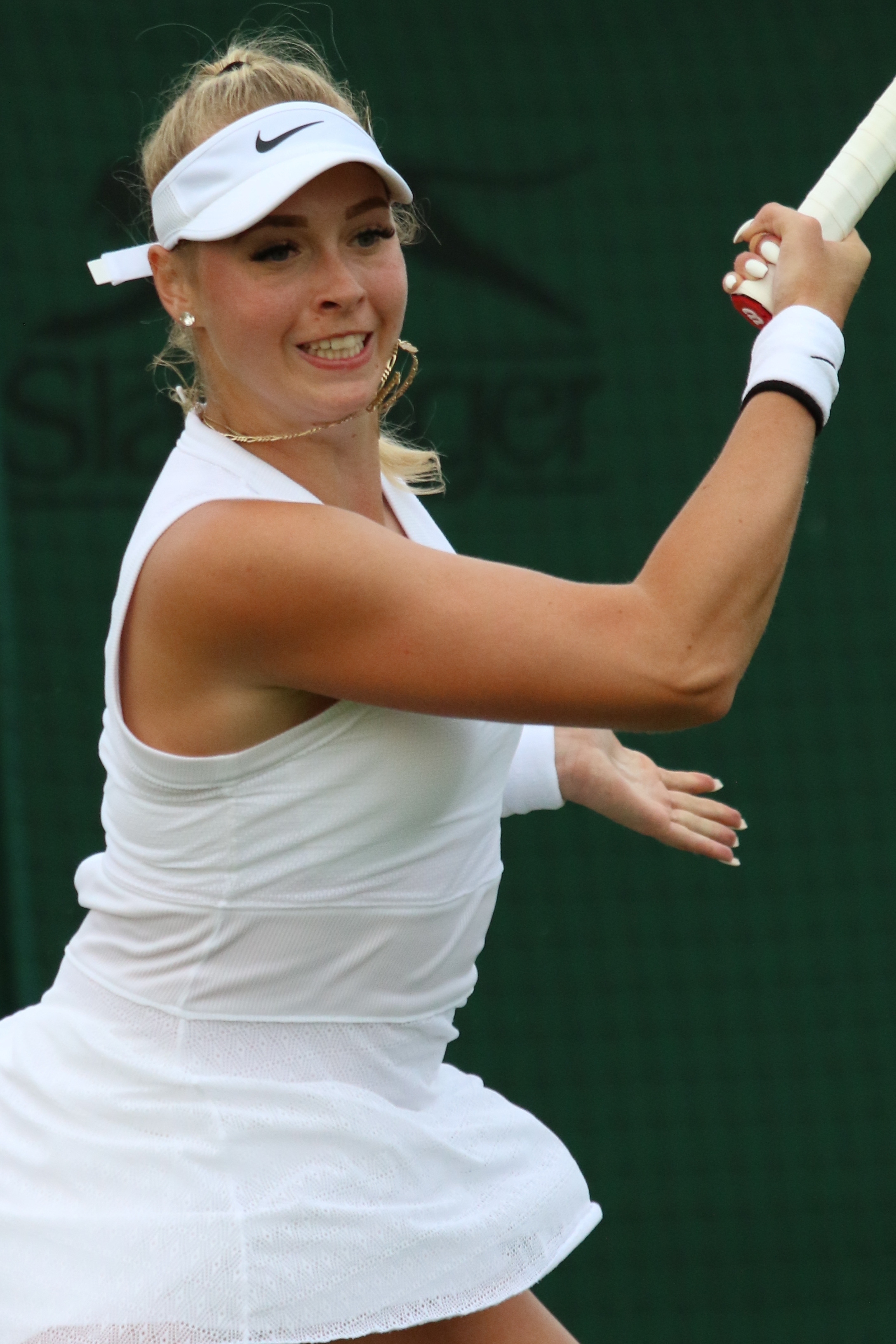 2019 Wimbledon Qualifying Tournament.